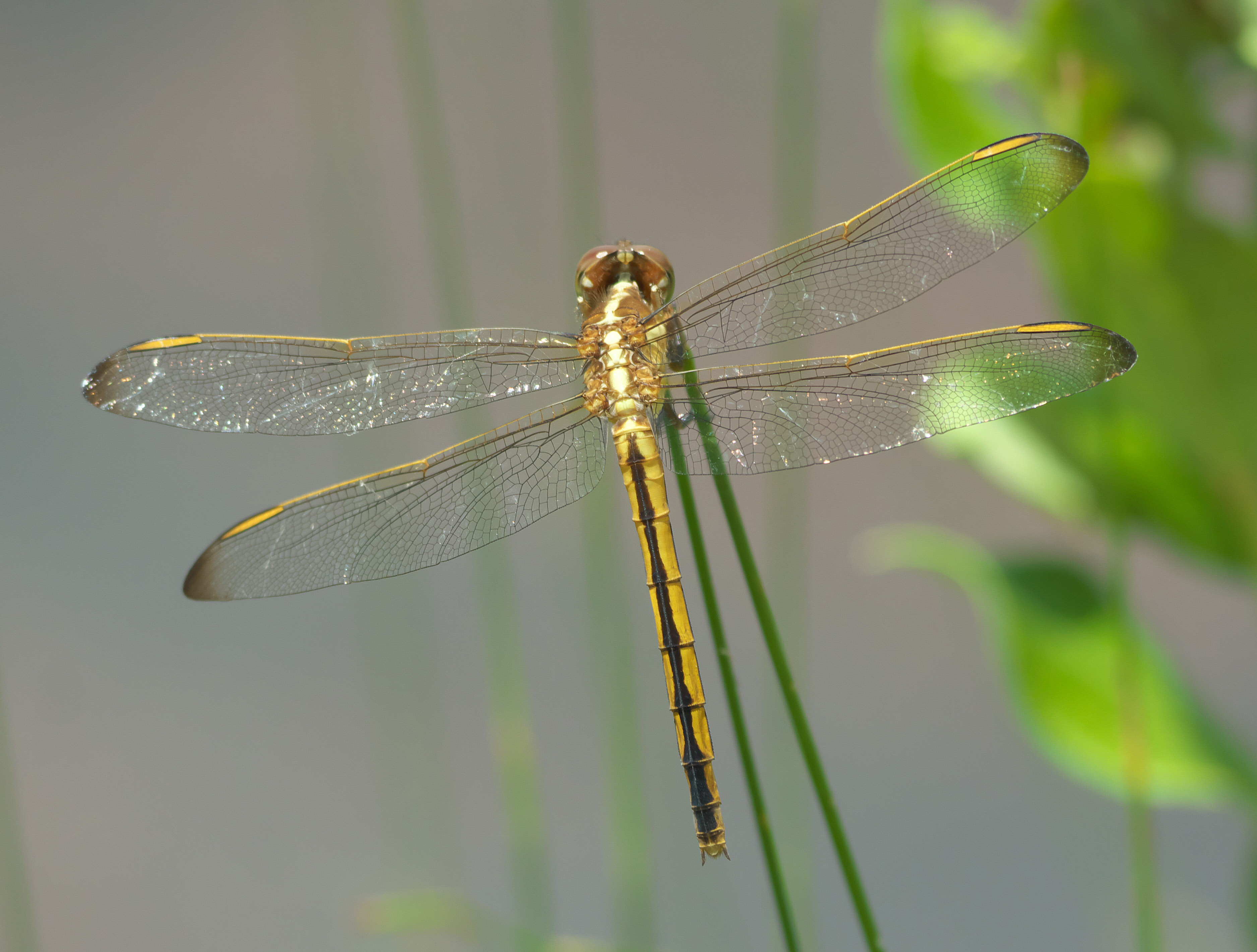 Libellula auripennis, Golden-winged Skimmer, ID Confidence: 94